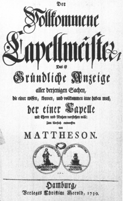 Title page of the Der Vollkommene Capellmeister